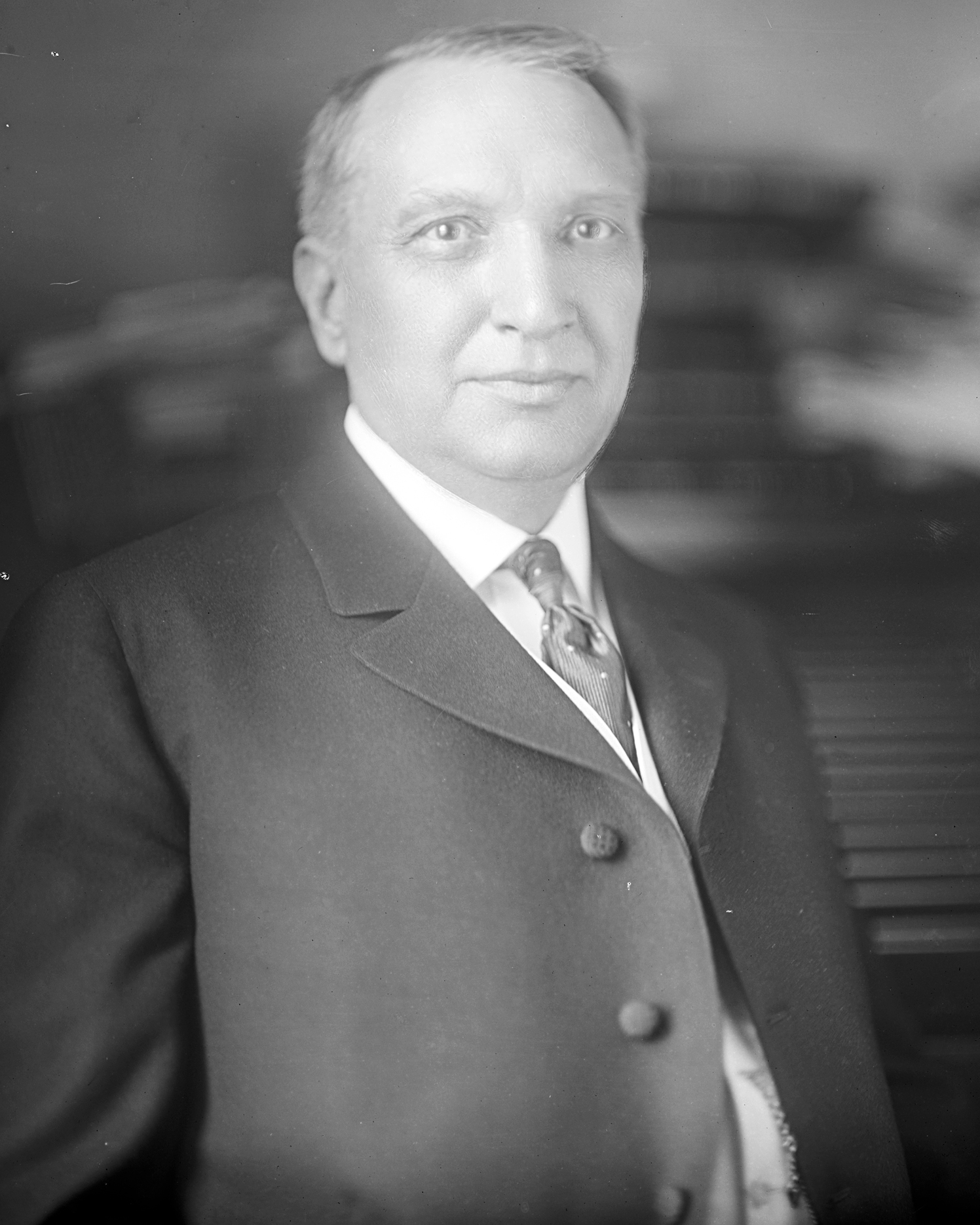 Alexander W. Gregg, US Representative from Texas